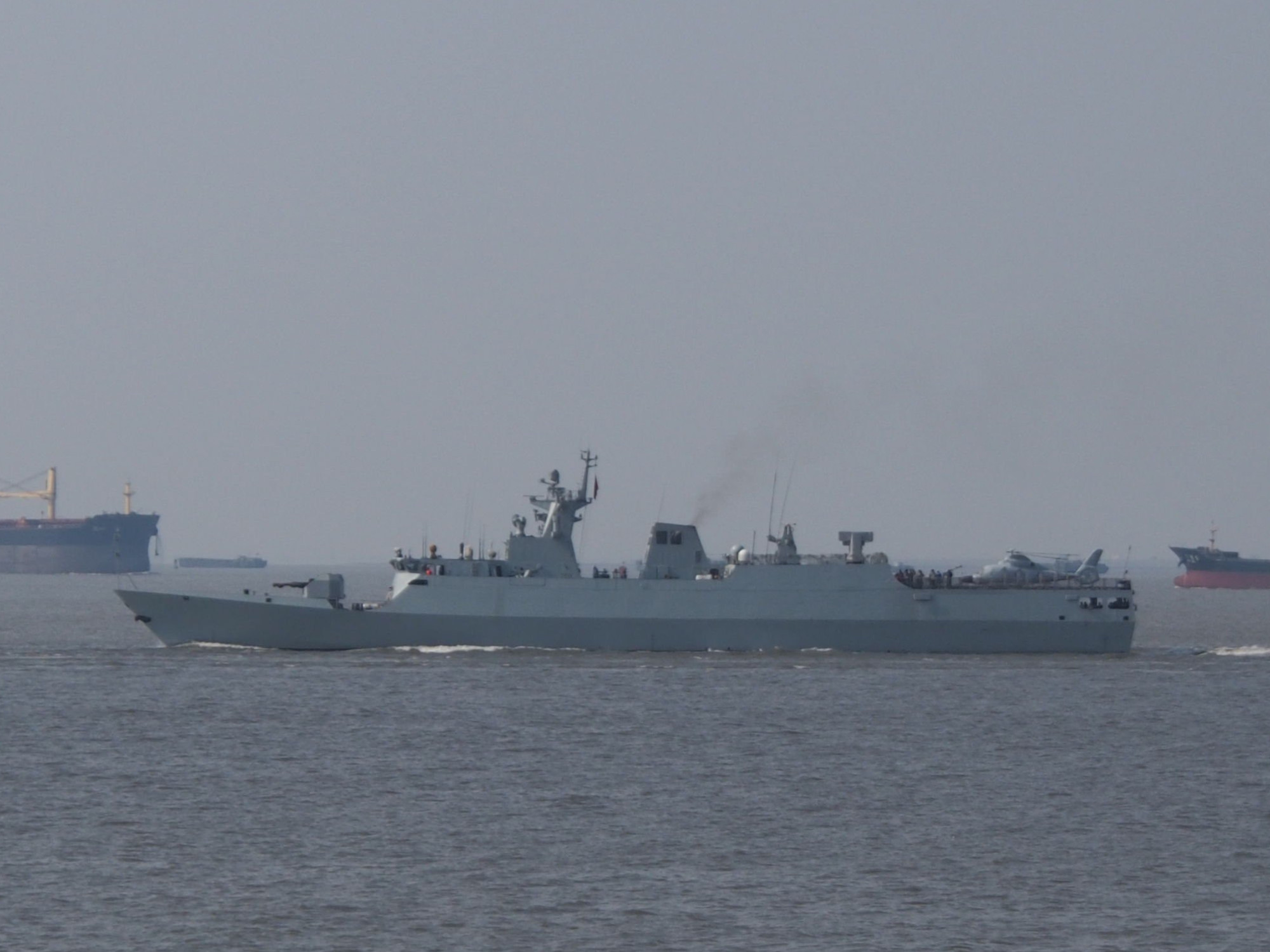 Type 056 corvette